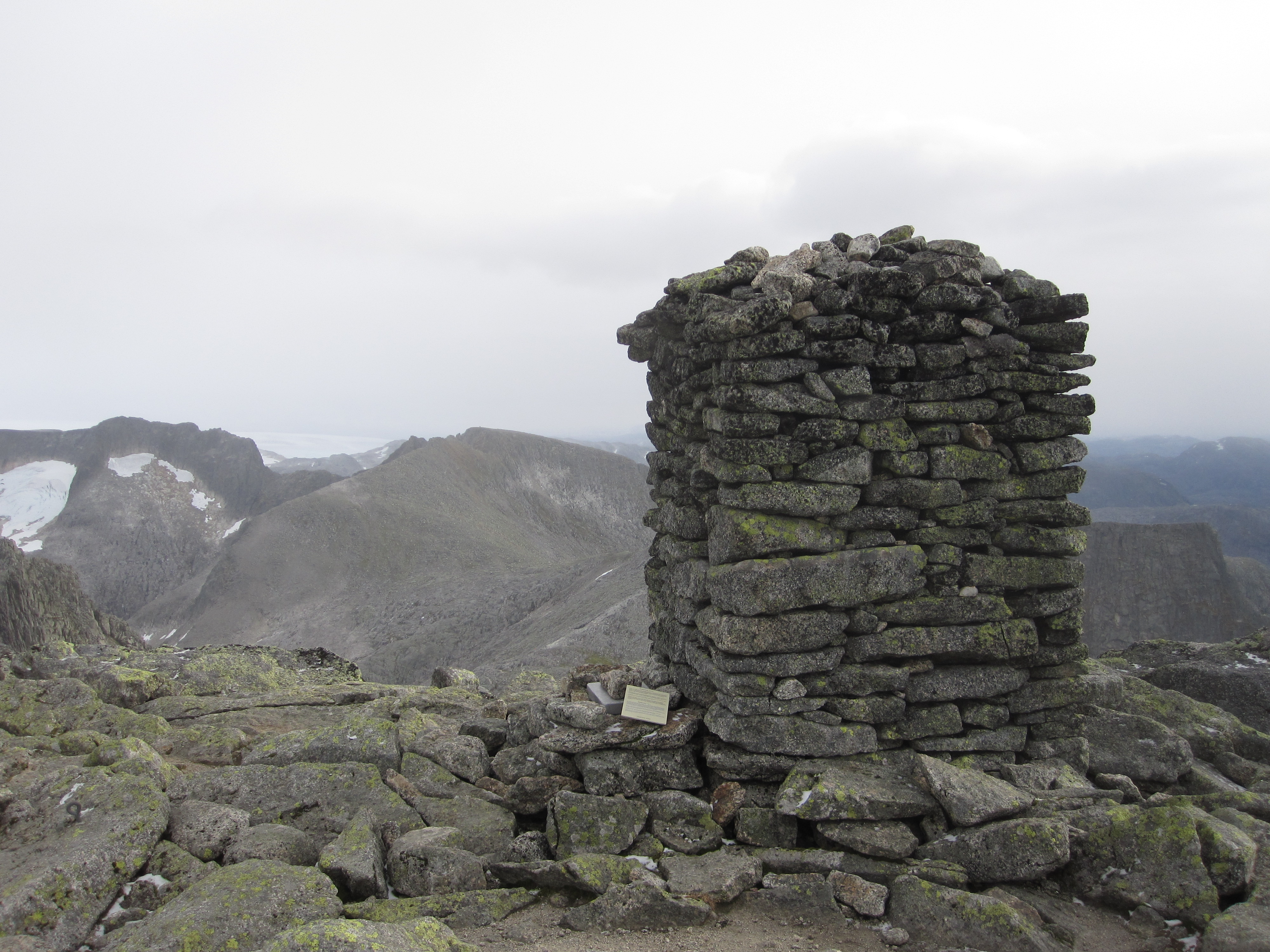 Varden på Melderskin fylte 100 år i 2013. (Foto: Morten Nygård).